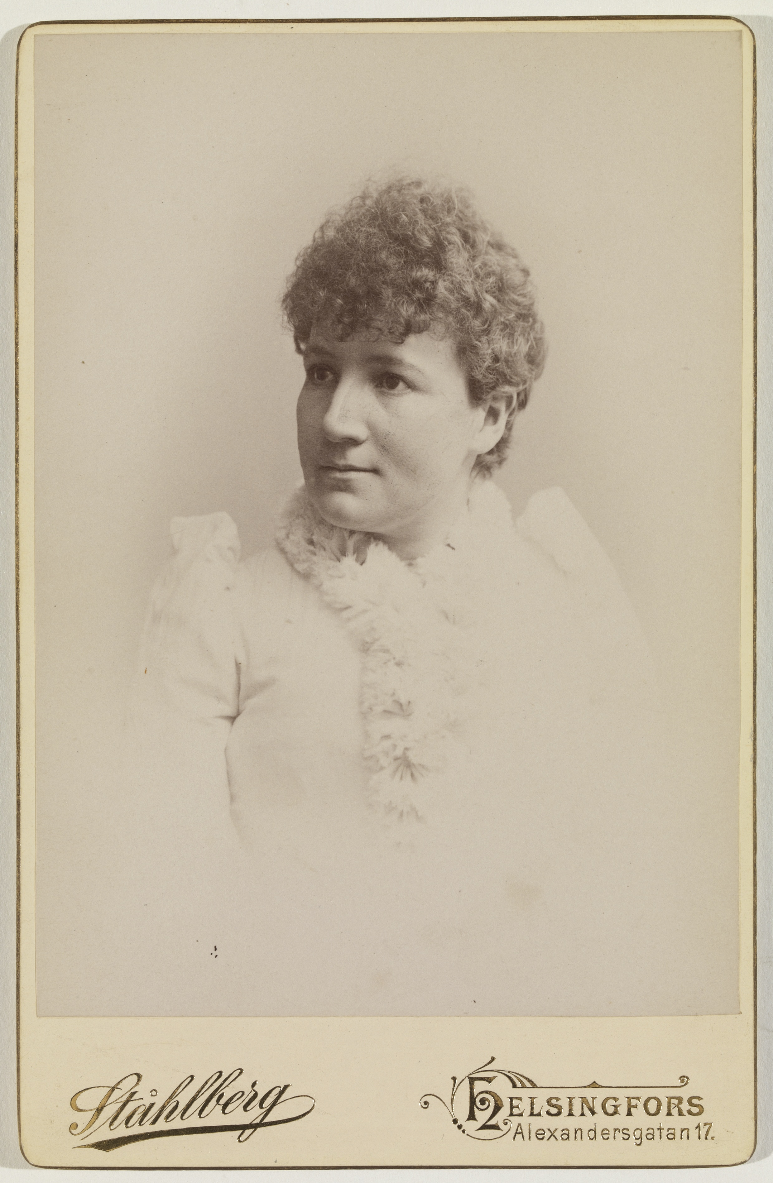 The Finnish singer and writer Sofie Bonnevie, picture from late 1800s